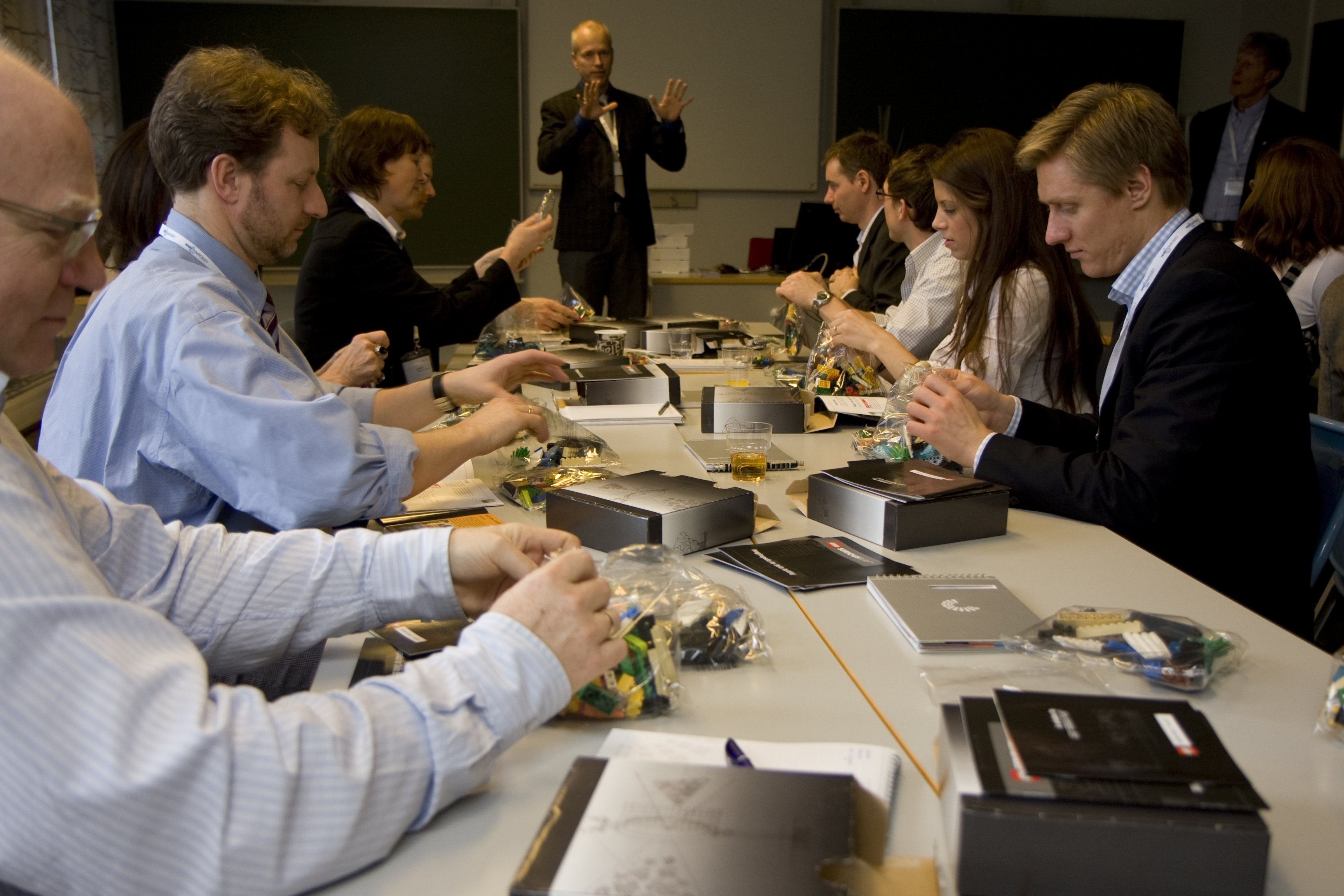 A Lego workshop at the student-run conference NHH-Symposium 2009